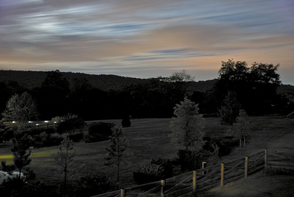 Night Photo